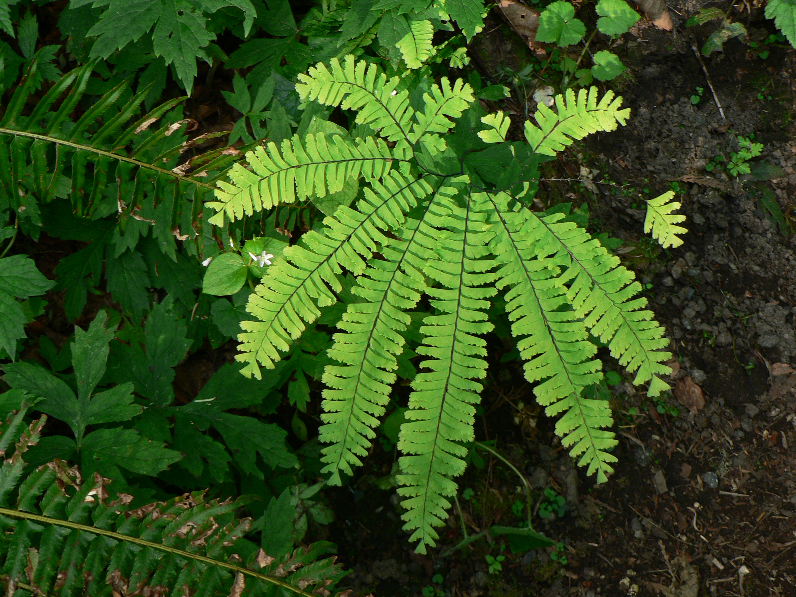 Aleutian maidenhair, western maidenhair